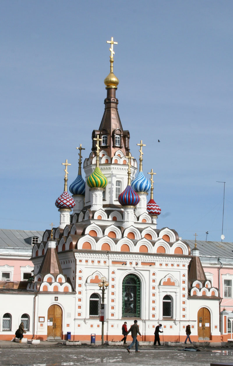 Saratov. Orthodox church «Utoli my sorrow»